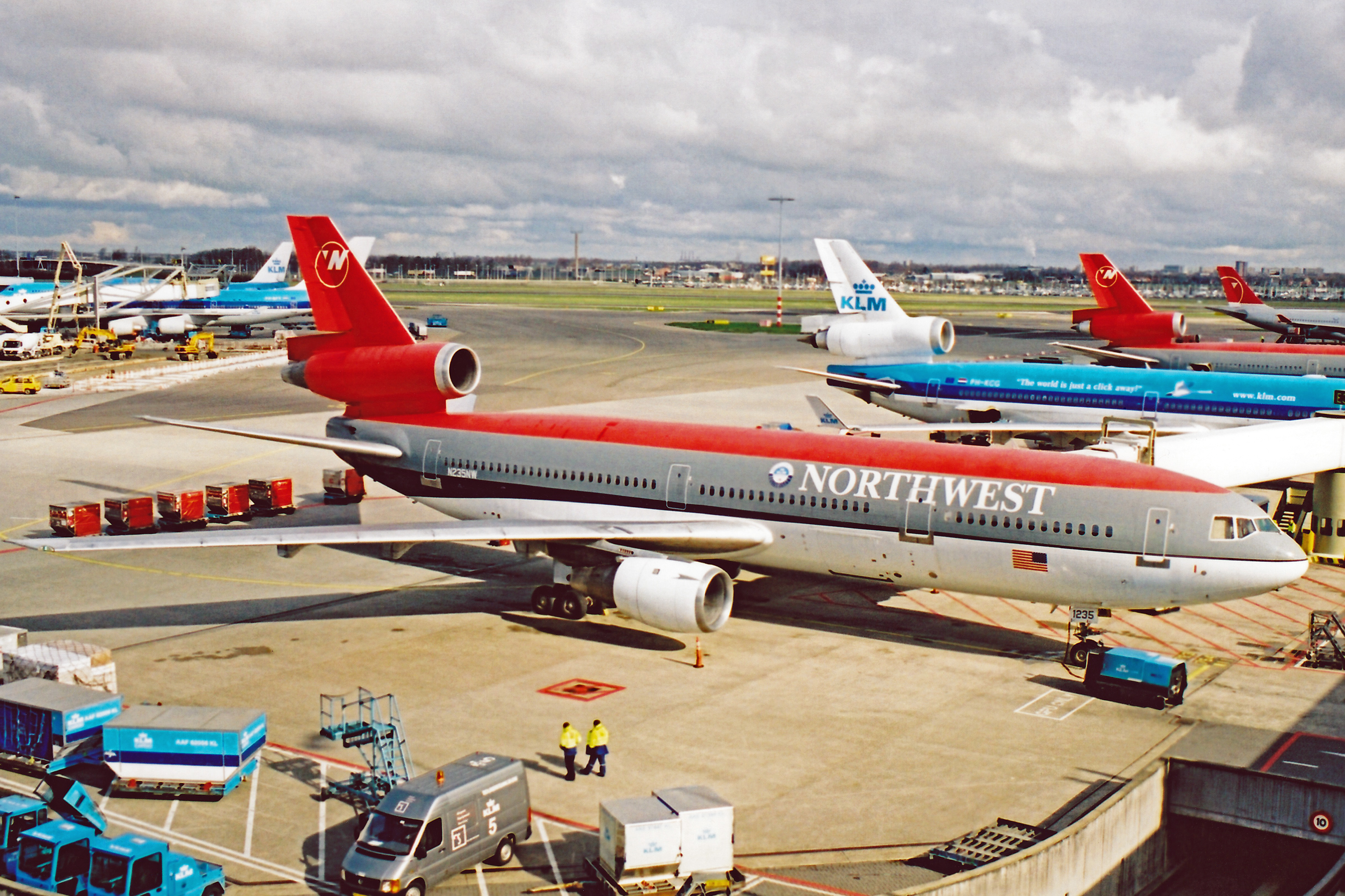 Ahhh... DC-10!!! Delivered to Korean Air Lines (later Korean Air) in Apr-75 as HL7317, this aircraft served with them for over 21 years until it was sold to Northwest Airlines in Aug-96 as N235NW. It went on to fly with Northwest for another 11 years until it was retired by them in Feb-07 and sold to Wells Fargo Bank Northwest. It was immediately leased to ATA Airlines and was re-registered as N705TZ in Sep-07. ATA Airlines ceased trading in Apr-08 and the aircraft was returned to Wells Fargo after 33 years in service!. It was stored at Marana, AZ, USA in Apr-08 and later sold to World Airways in Aug-08. However it never returned to service and was broken up at Marana in Mar/Apr-11.